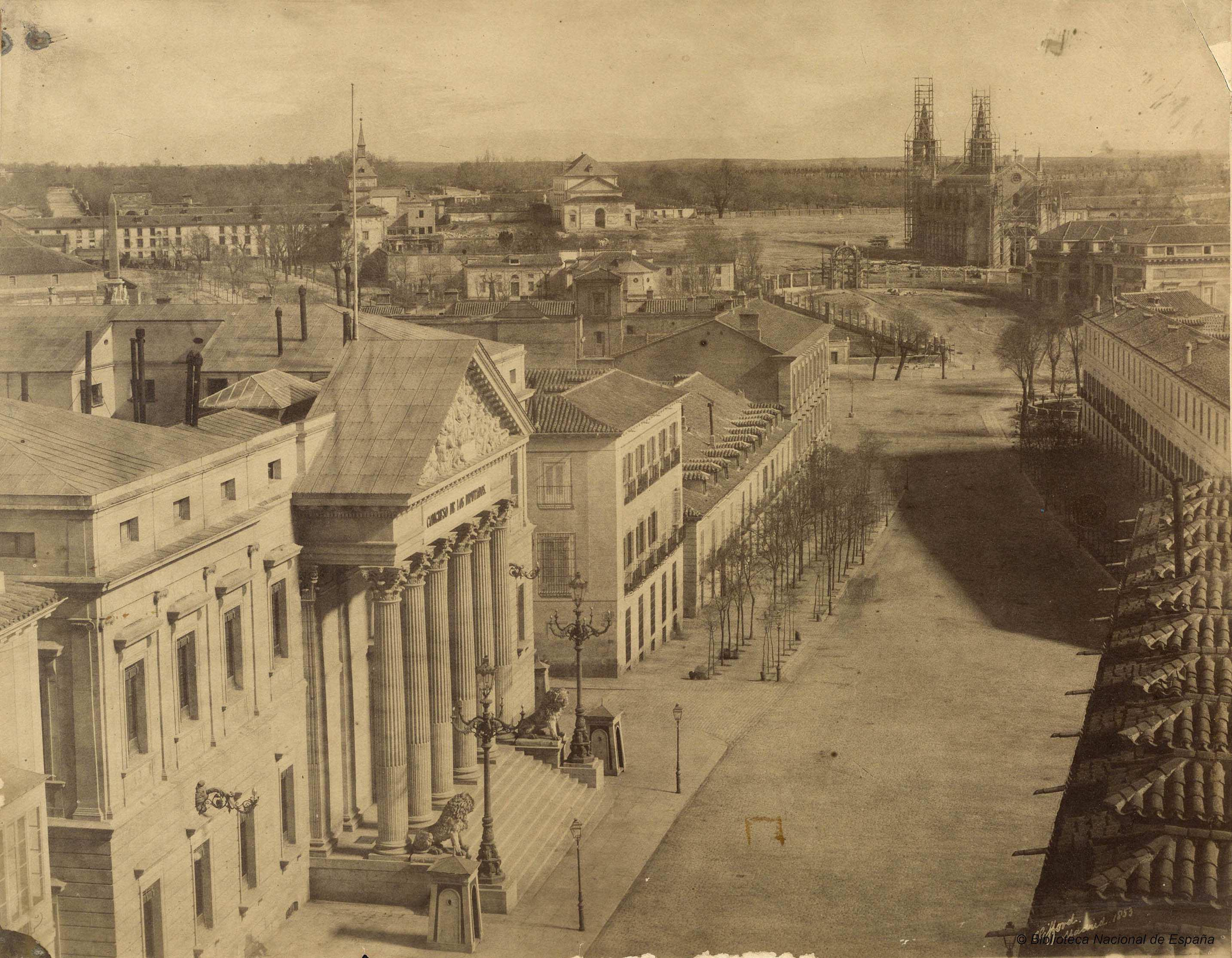 Congreso de los Diputados, en la carrera de San Jerónimo de Madrid, a la derecha el palacio de los duques Medinaceli, haciendo esquina con el Paseo del Prado, Madrid.